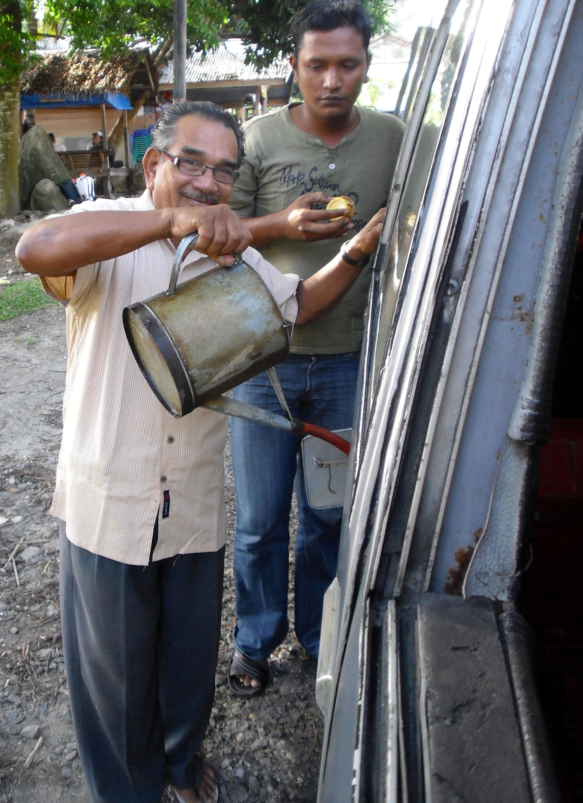 A car being filled up with gas at a basic gas station in Pulau Weh, Aceh, Indonesia.